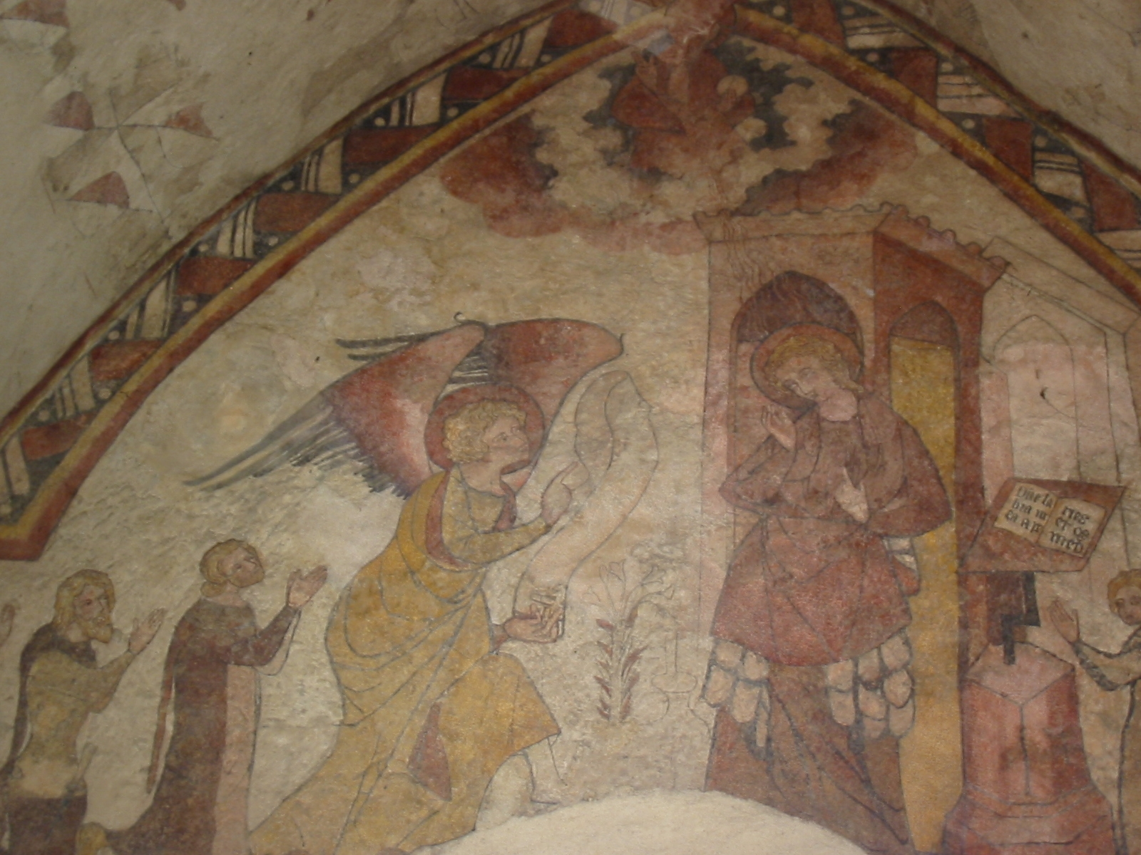 Annunciation, Chapelle ès Pêcheurs (Fishermen's Chapel), St. Brelade, Jersey. Photo taken by Man vyi with Canon PowerShot A40 on 8/7/2005